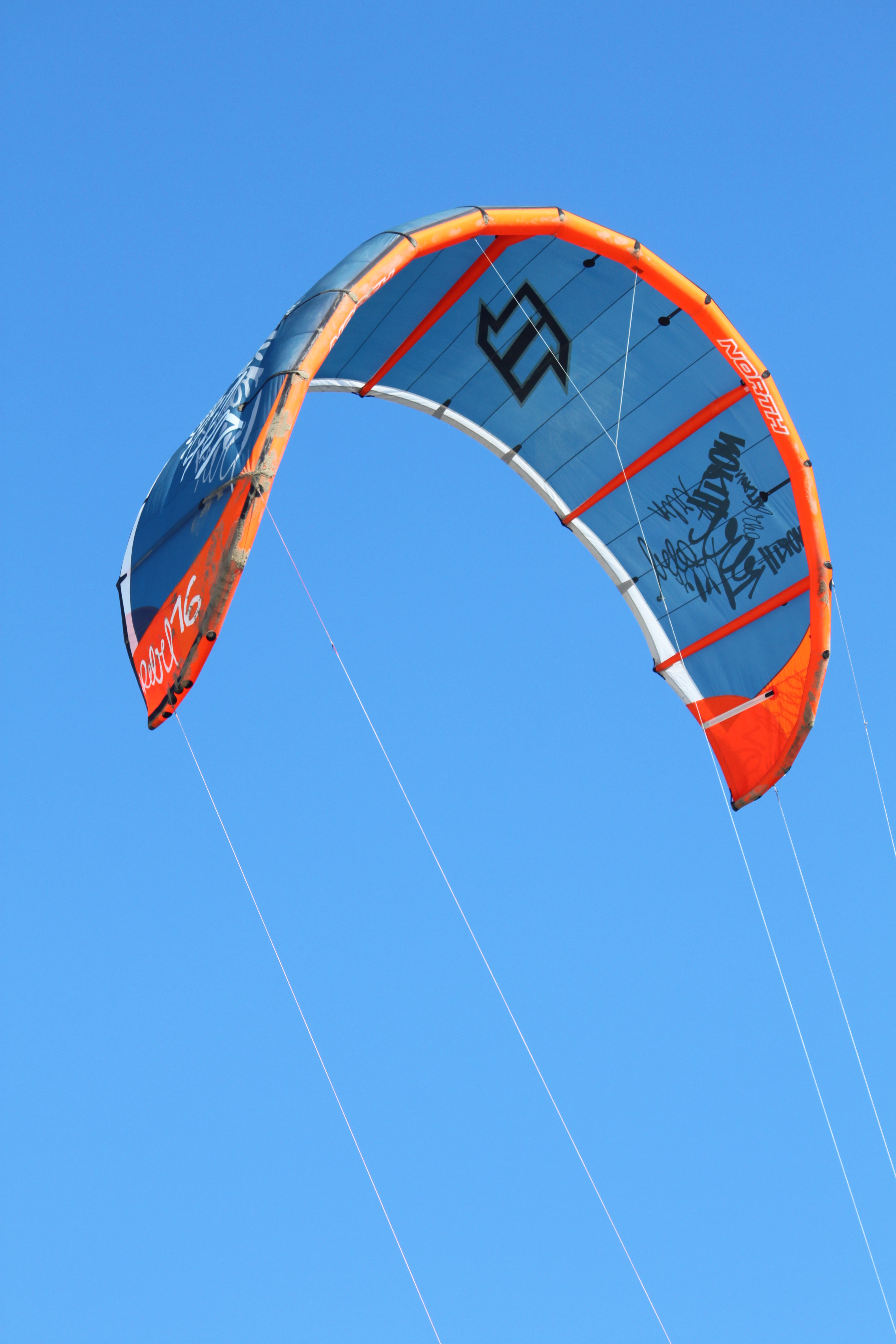 A 2007 North Sails 16 m² rebel, an example of a "Bow" power kite